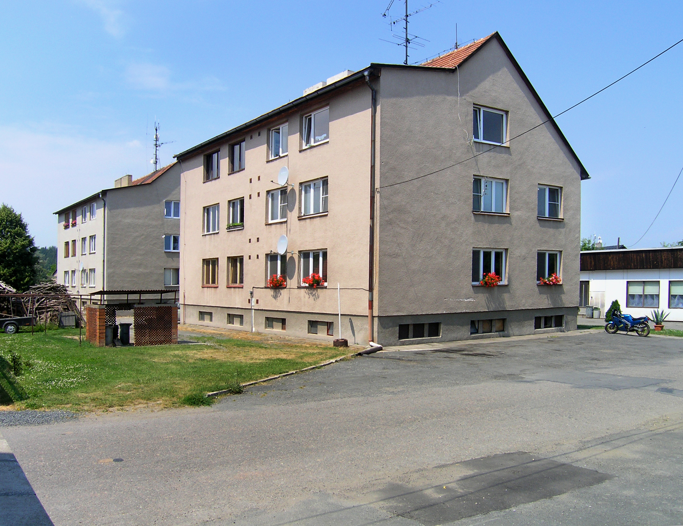 Tenement houses in Ždánice, Czech Republic